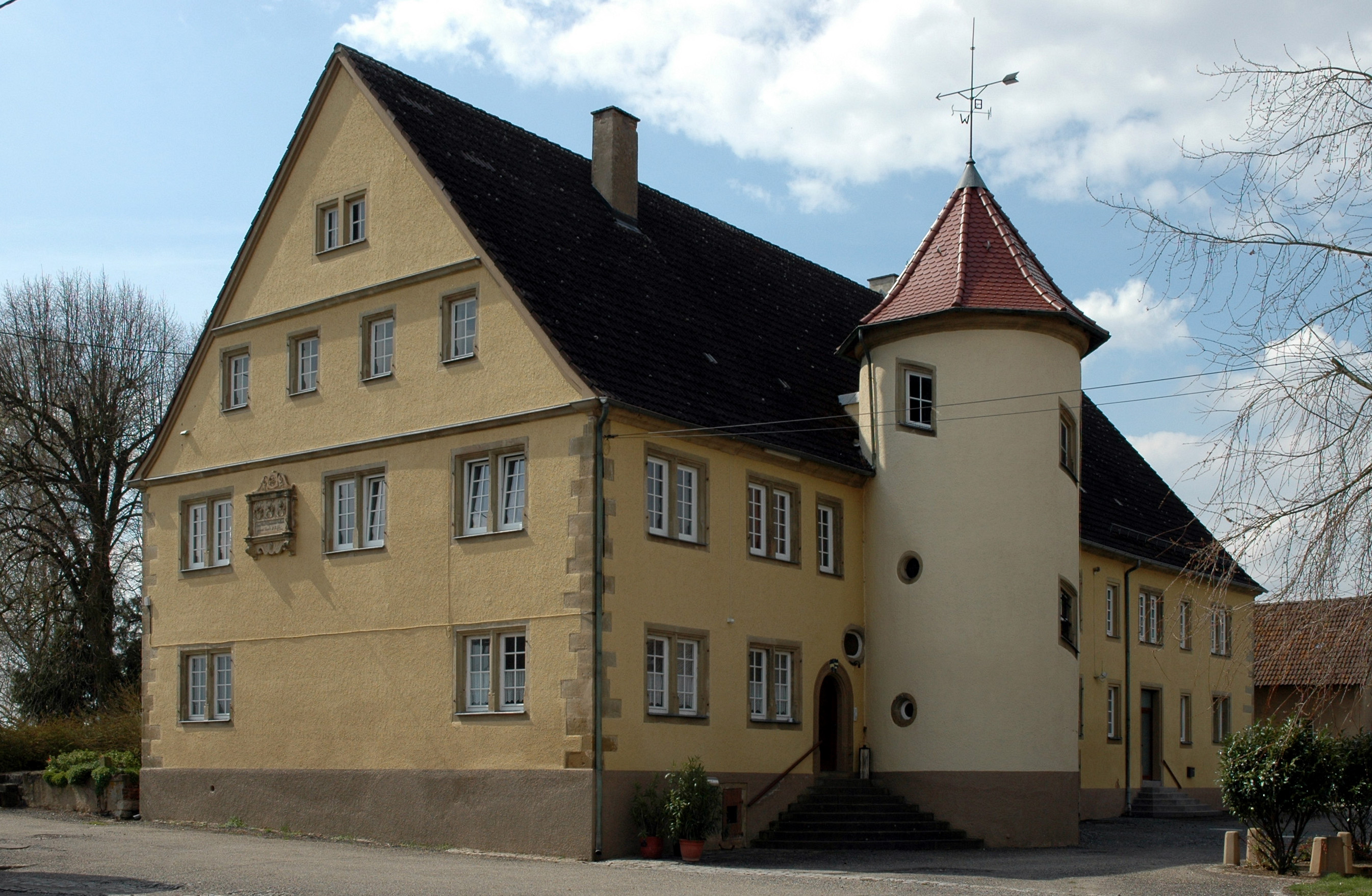 manor house of Capler family at Willenbach near Oedheim.